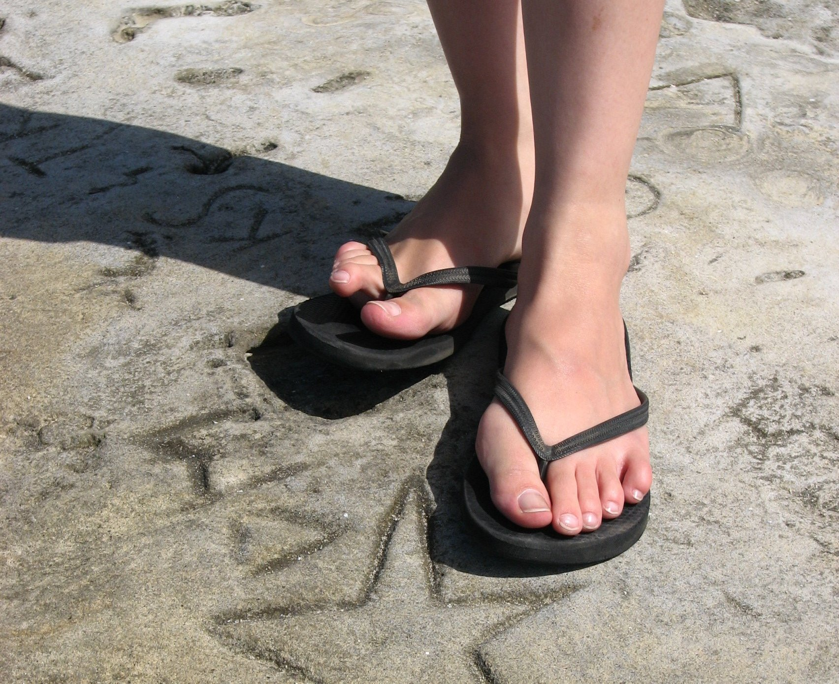 Black flip-flops